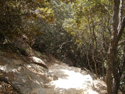 The Troodos Mountains, Cyprus